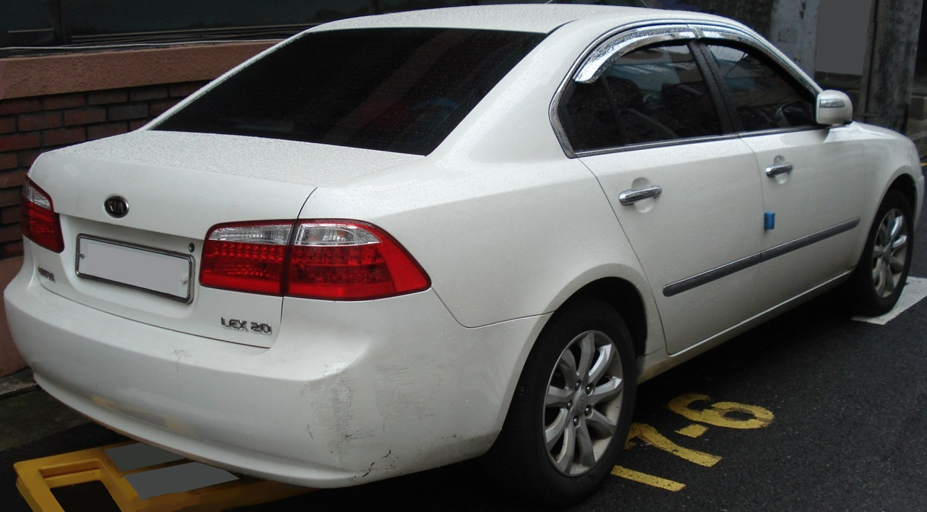 Kia Lotze Advance